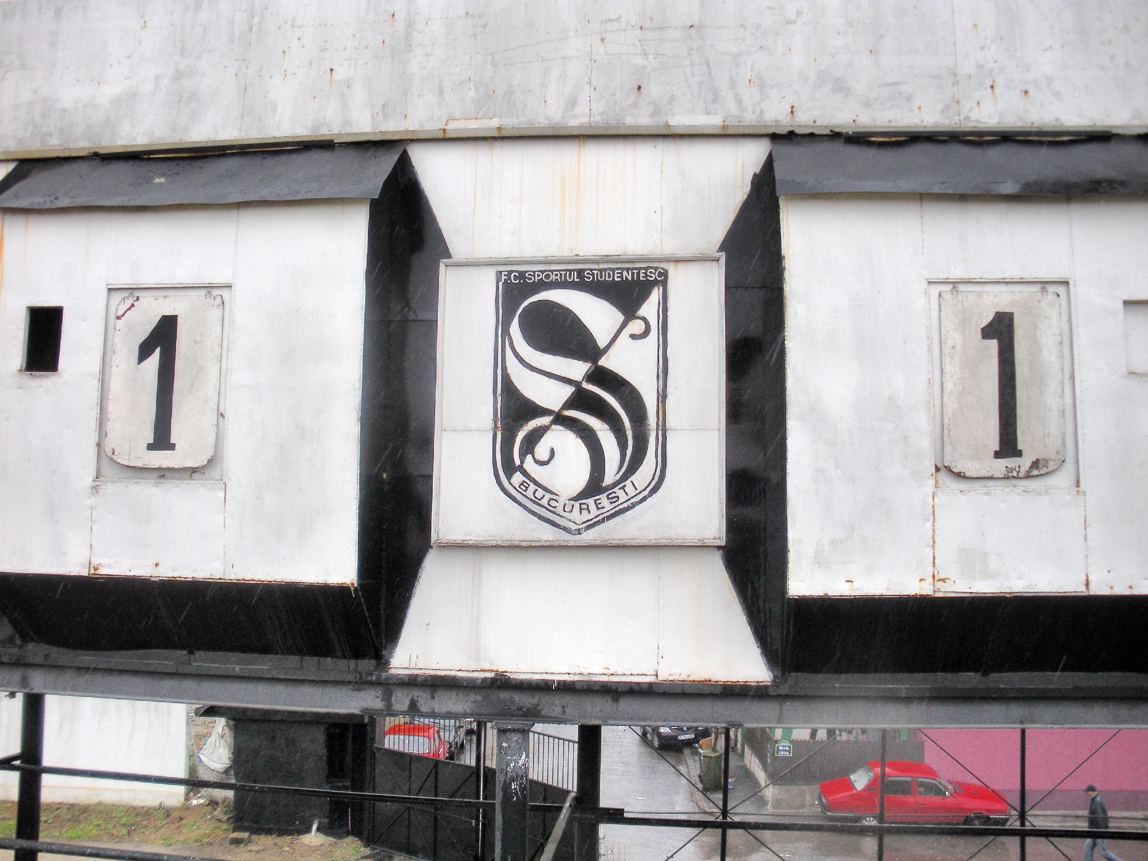 Scoreboard at Stadium "Regie" of FC Sportul Studenţesc Bucureşti (Bucharest / Romania)